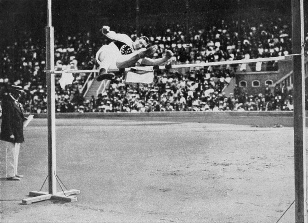 Hans Liesche during the high jump competition at the 1912 Summer Olympics.